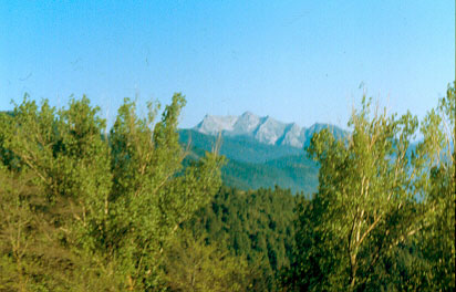 Oiti, mountain in Grece